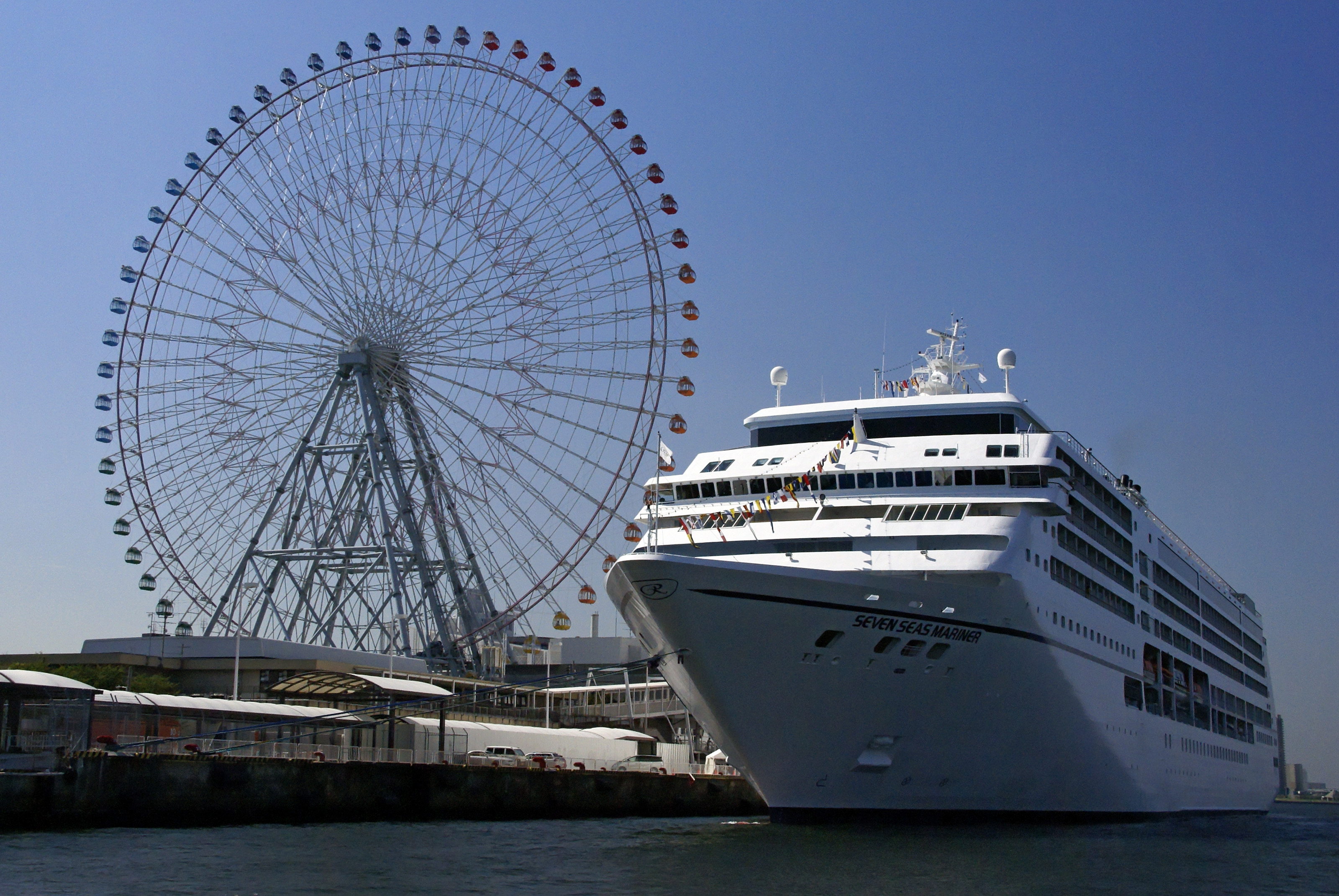 "SEVEN SEAS MARINER" at "Tenpozan Wharf" of the Osaka harbor ( Osaka, Osaka prefecture, Japan)